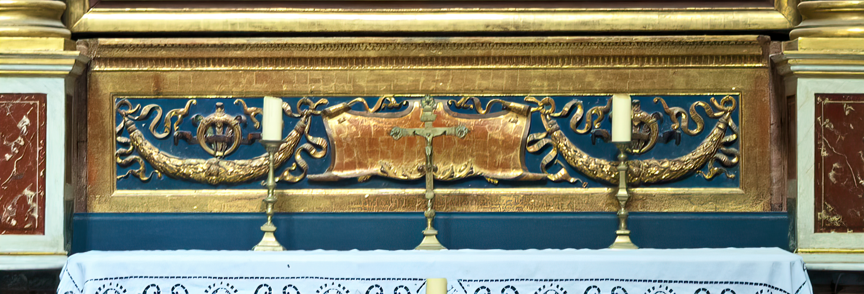 St. Martin chapel in Cathedral Saint-Just-et-Saint-Pasteur of Narbonne. Relics of St. Martin left of the altar. In the center of the altarpiece a picture of Charles André van Loo "The Raising of Lazarus"; copy of the picture of Sebastian del Piombo commissioned by Cardinal Giulio de Medici, Archbishop of Narbonne became pope under the name of Clement VII. From either side of the altar statue of St. Augustine and St. Ambrose. In the center before the altar burial of Arthur Richard Dillon.